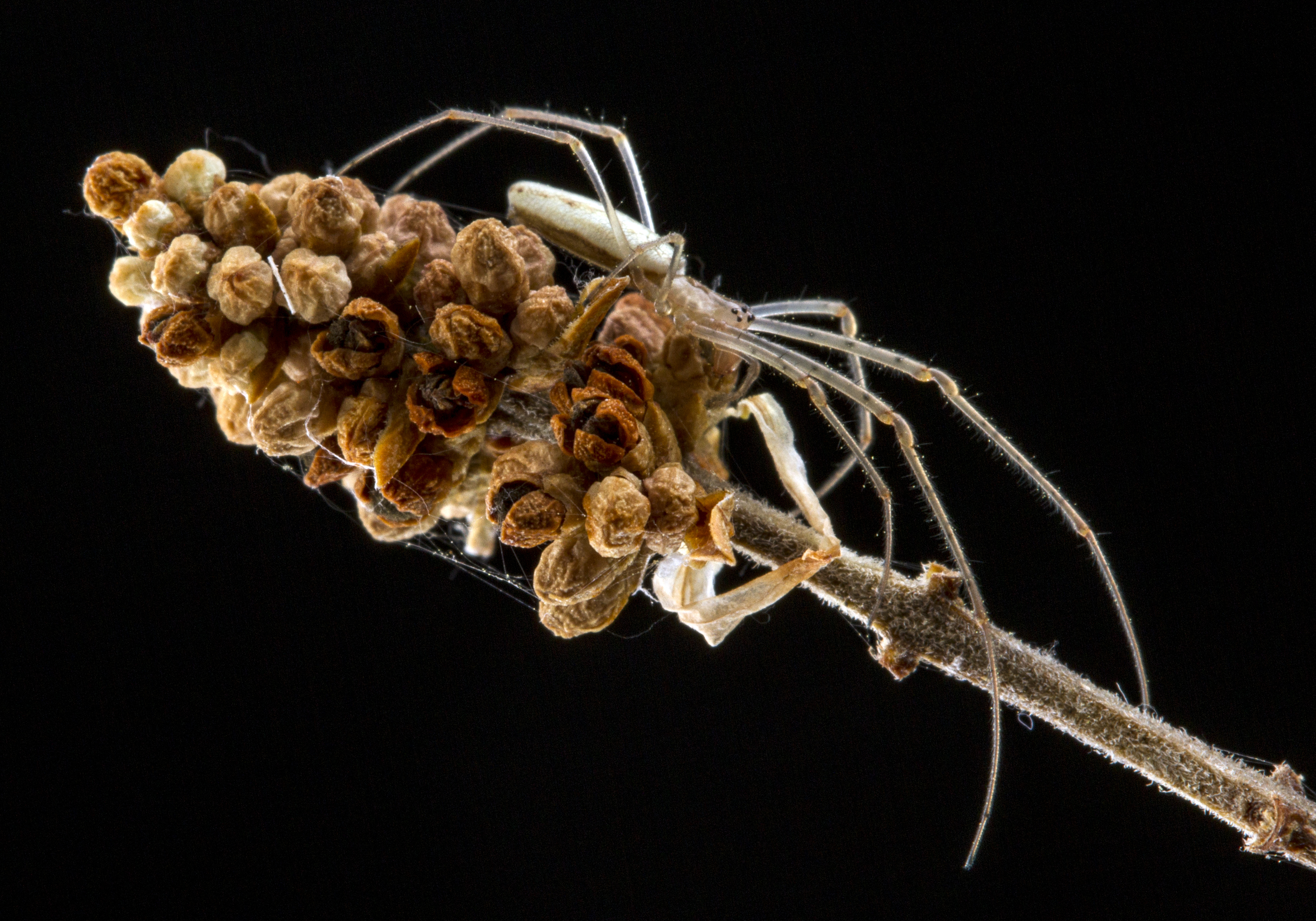 Tetragnatha laboriosa, a long-jawed orb weaver. Brackenridge Field Laboratory, Austin, Texas, USA. public domain image by Alex Wild, produced by the University of Texas "Insects Unlocked" program.